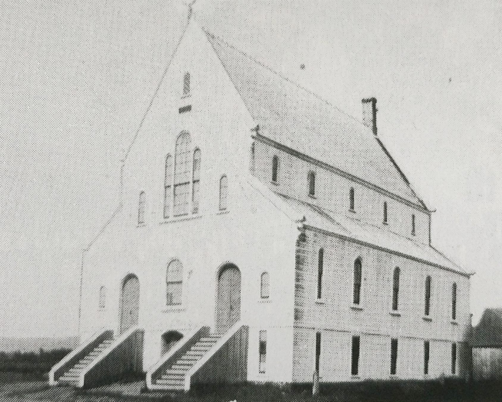 Second Billtown Church built 1872, torn down in 1903. Photo courtesy of Roberta Sawler